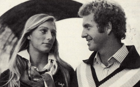 Klaus Dibiasi with his ex-wife Elisabetta Dessy, at his home in Italy in 1960s